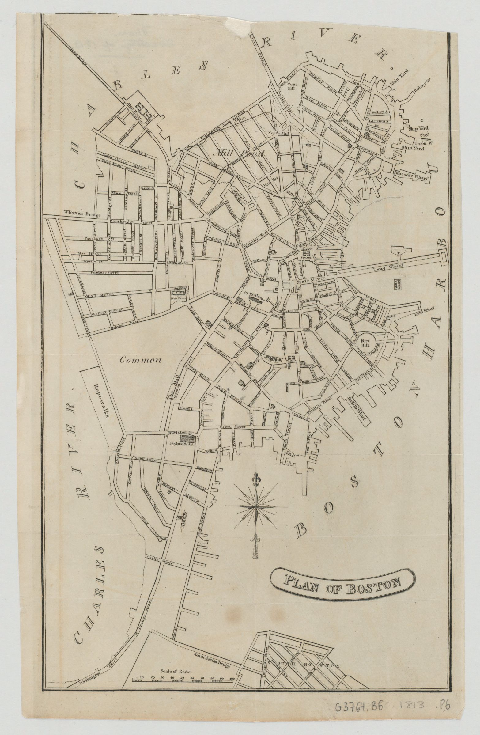 Map of Boston, Massachusetts, USA., from Boston directory (1789), 1813.